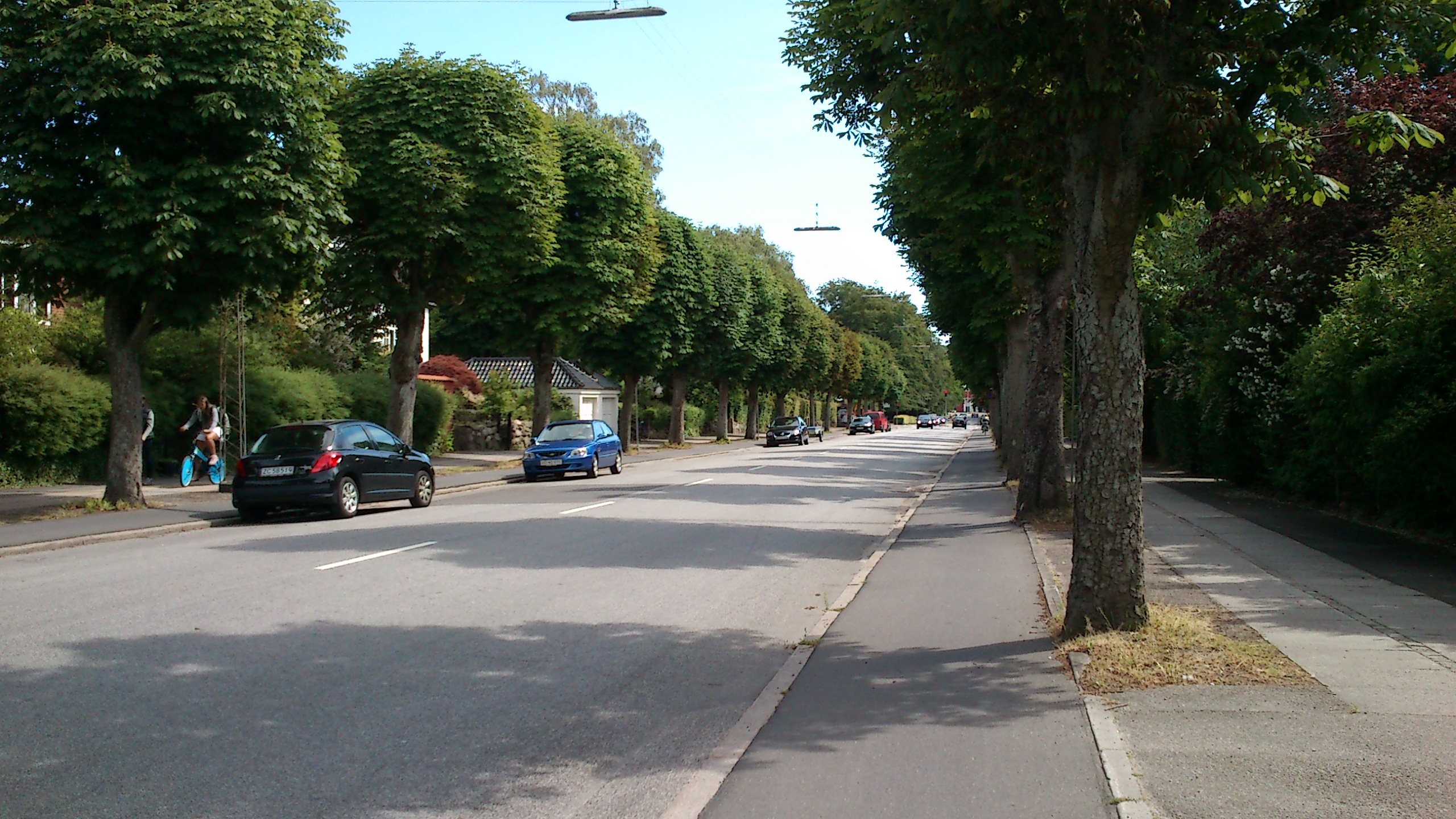 Stadion Allé in June.